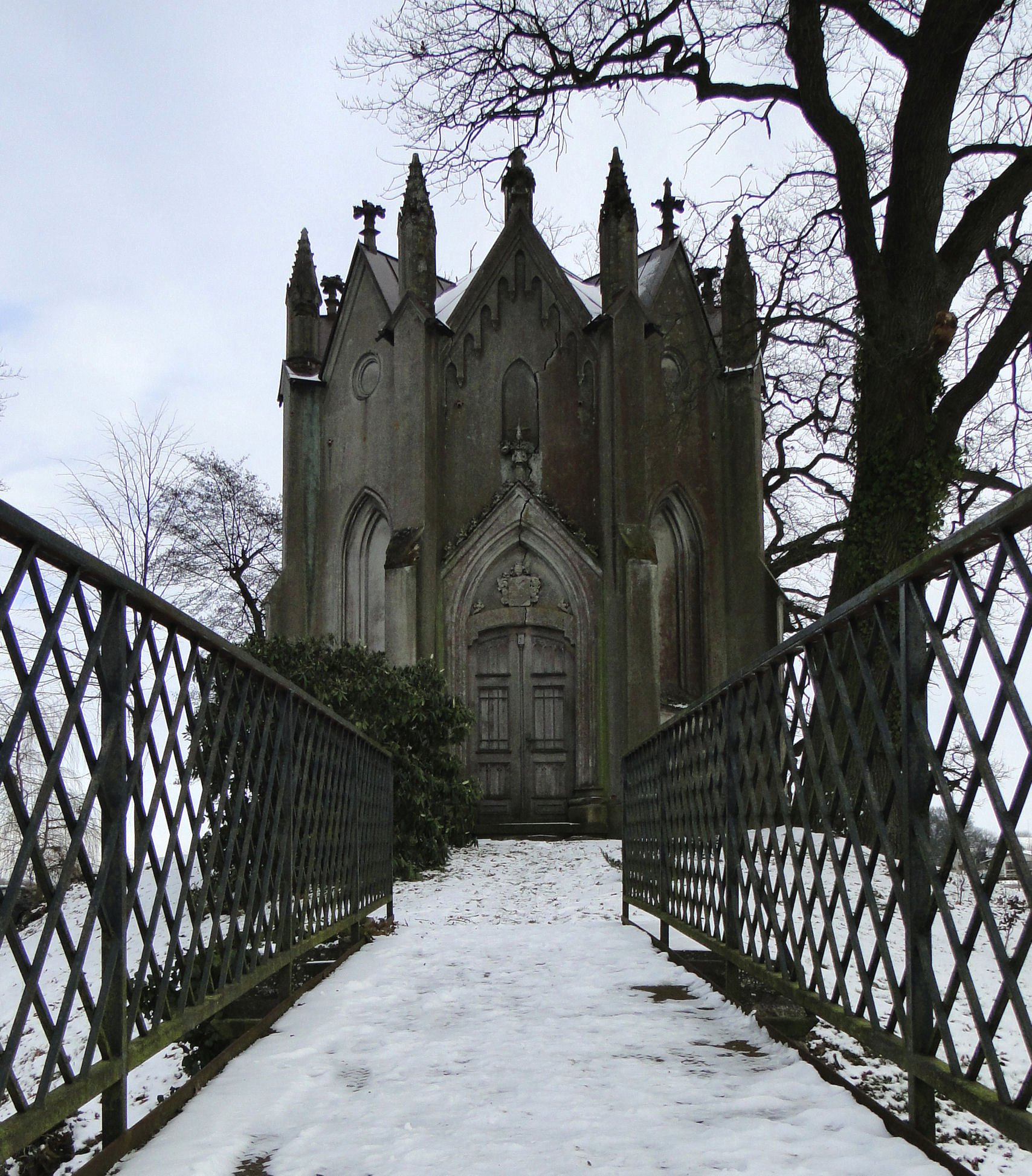 Mausoleum of Laffert family on a motte in Lehsen, district Ludwigslust-Parchim, Mecklenburg-Vorpommern, Germany